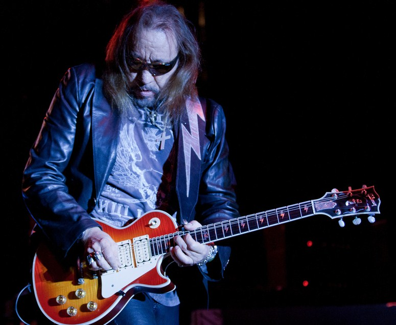 Ace Frehley, original guitarrist of Kiss, performing live in 2011.